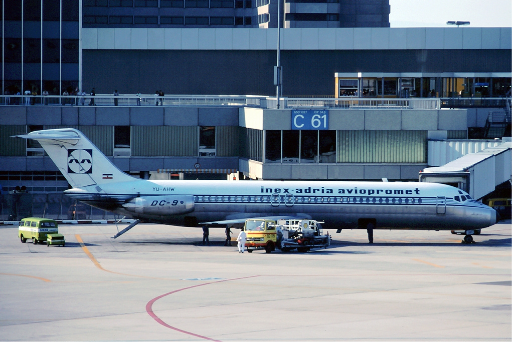 Inex-Adria Aviopromet McDonnell Douglas DC-9-33RC